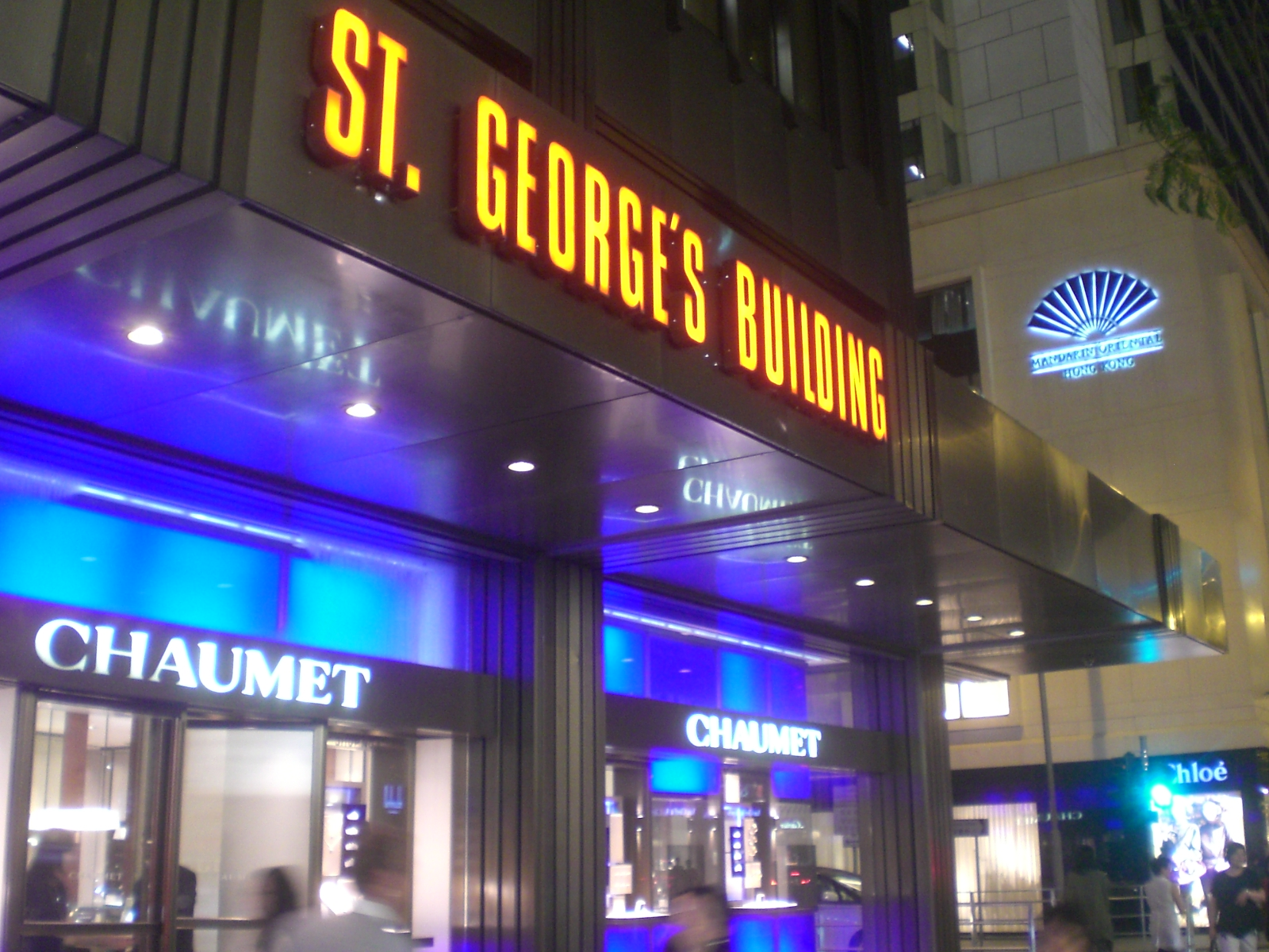 中環(St George's Building, Hong Kong)